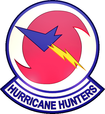 Emblem of the 53rd Weather Reconnaissance Squadron